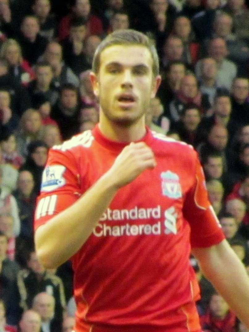 Henderson during the game against Blackburn Rovers